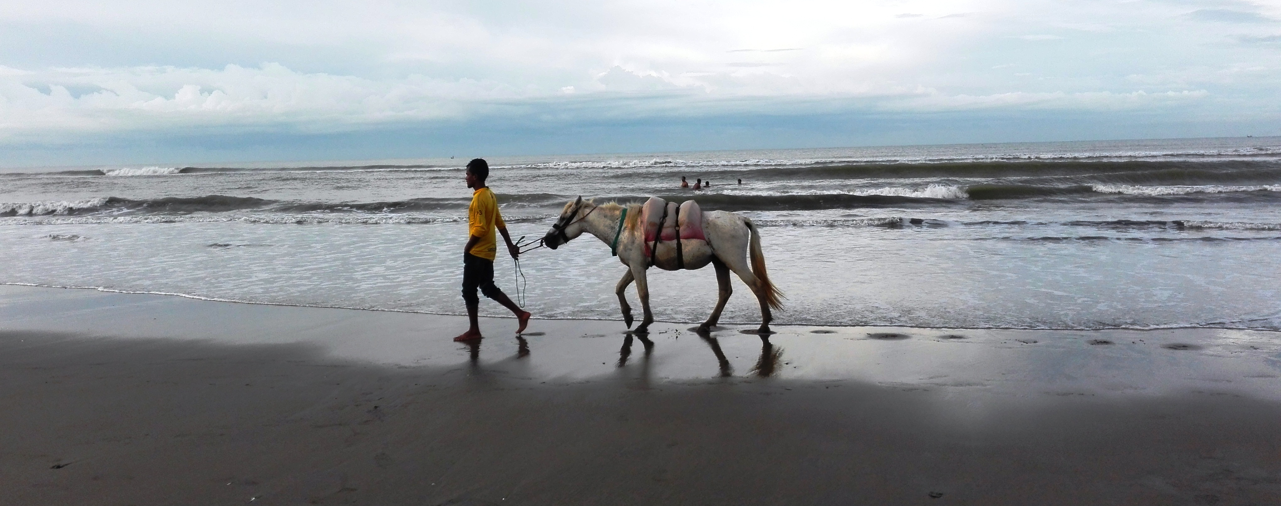 a boy with a horse at cox's bazar